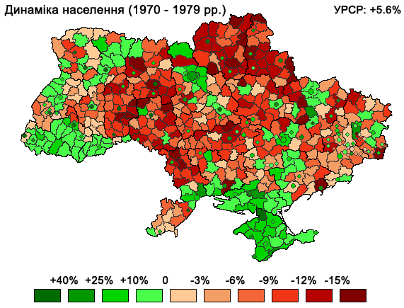 Population Change in Ukrainian SSR between 1970 and 1979